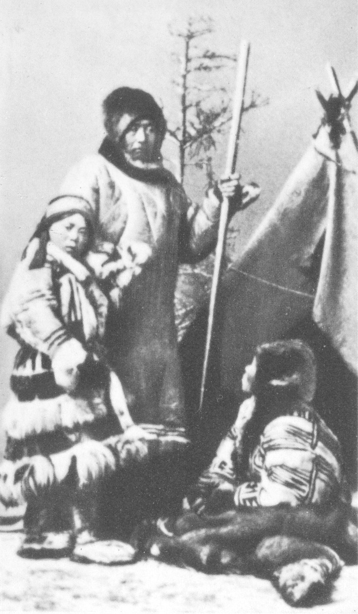 Nenets